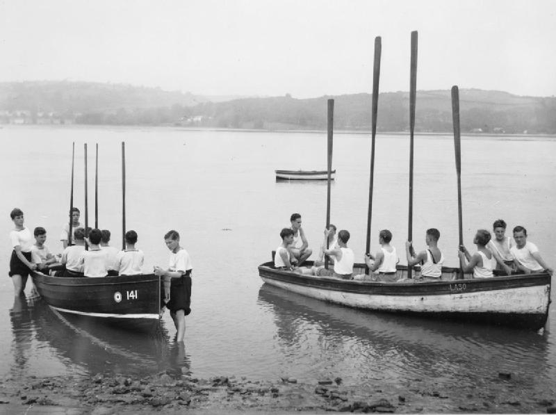 London Evacuees in Carmarthenshire, Wales, 1940 Boys of the Rotherhithe Nautical School, Bermondsey, London at boat drill at Ferryside, Carmarthenshire, Wales.